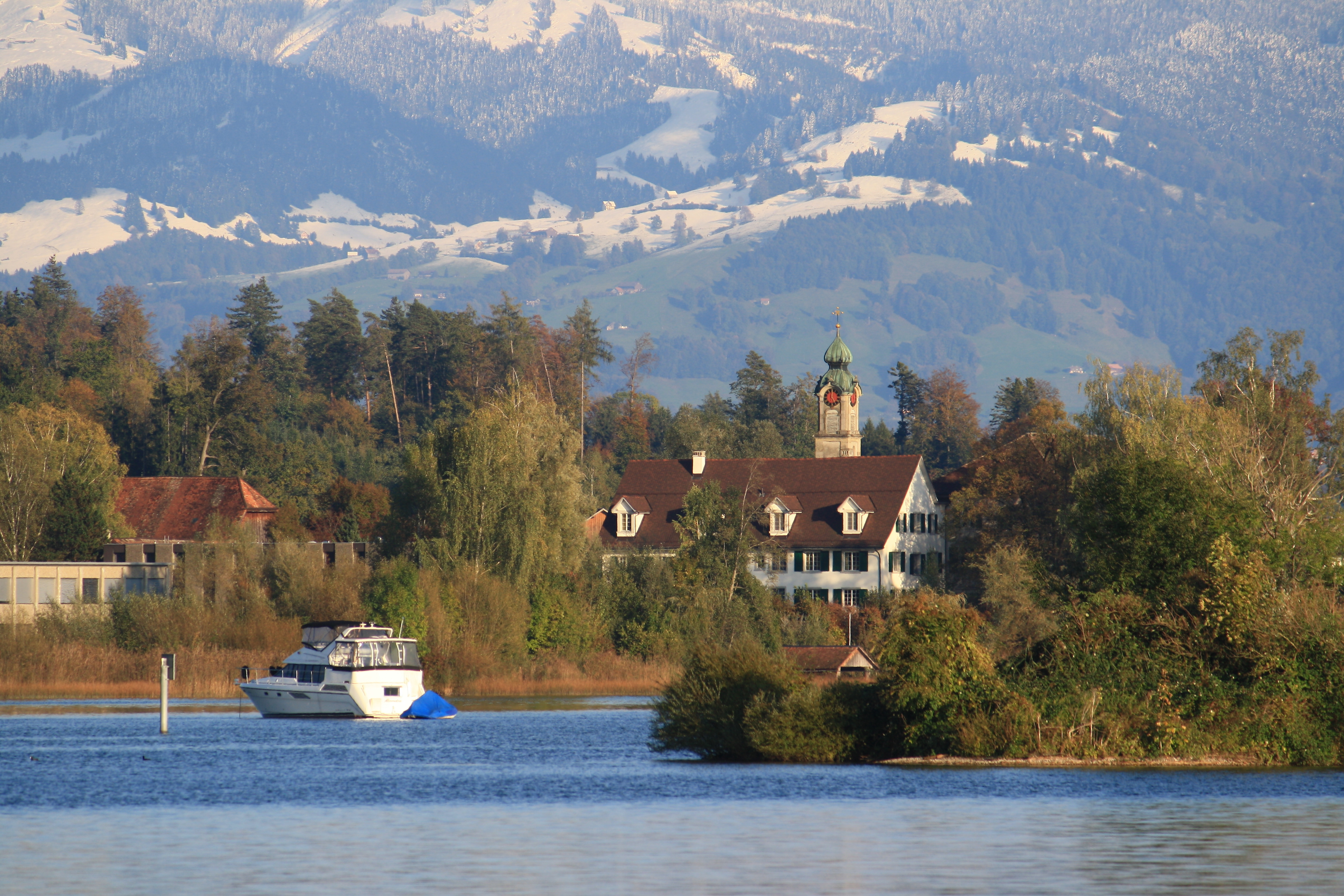 Obersee (Upper Lake Zürich), as seen from Stampf lido in Jona (SG), Mariazell Wurmsbach Abbey in the background.